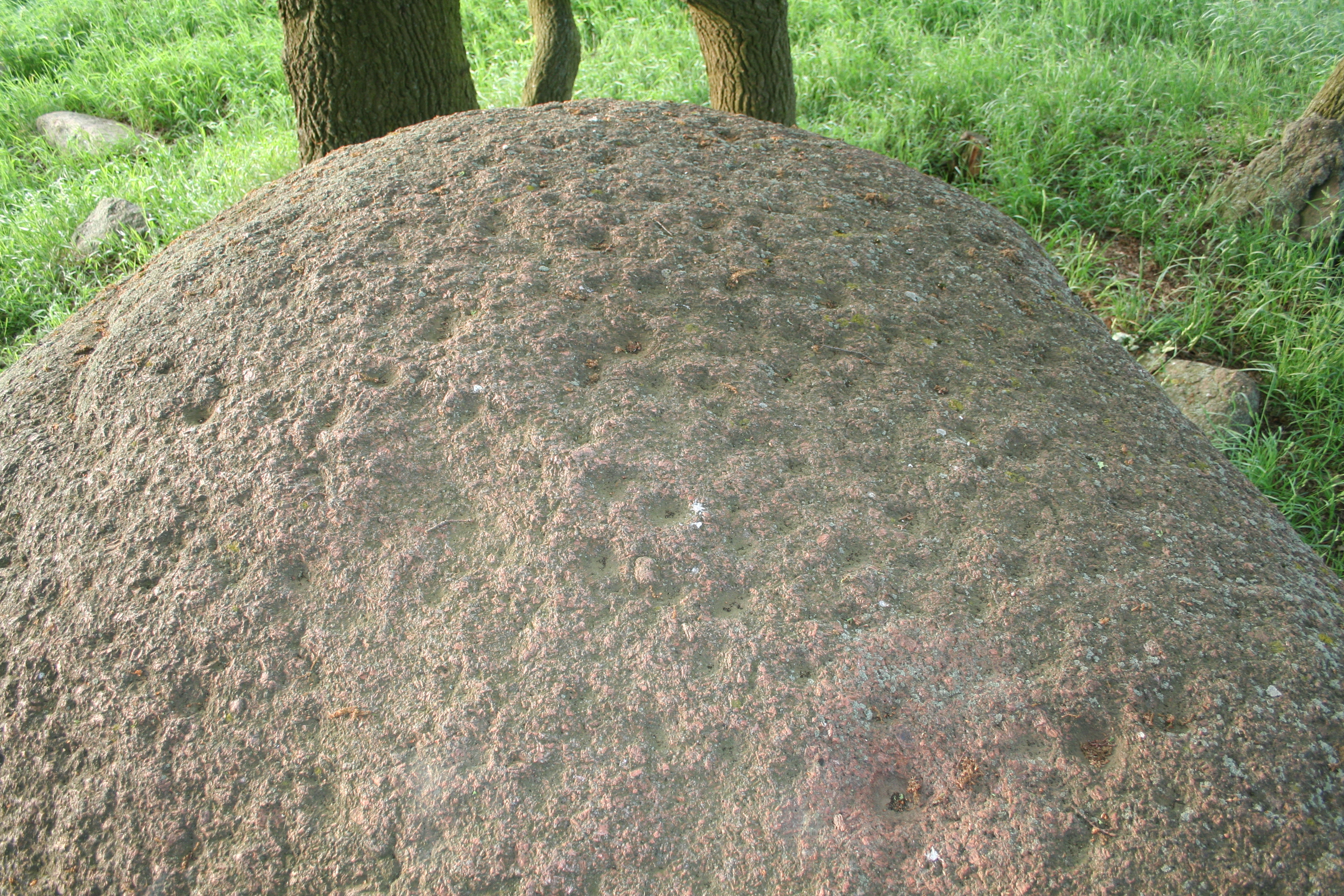 Dolmen in Stöckheim (Rohrberg), Altmark